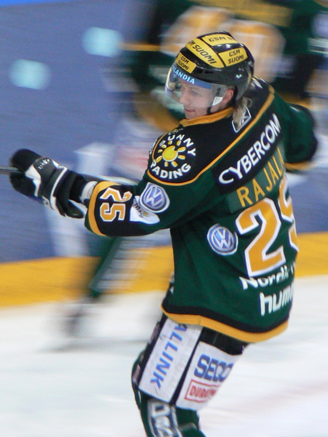 Finnish ice hockey winger Toni Rajala playing for Ilves Tampere in an SM-liiga game in January 2009.